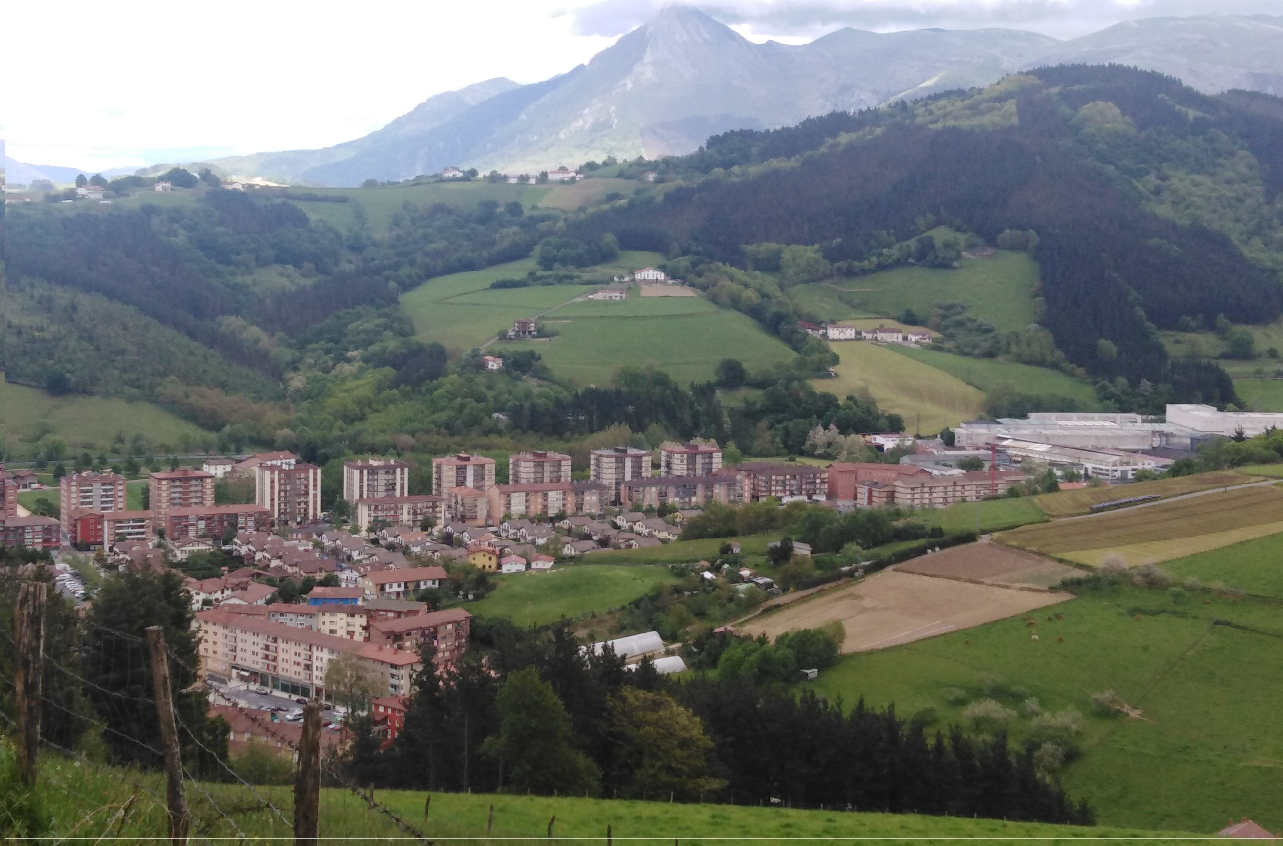 Lazkao, Gipuzkoa, Euskal Herria